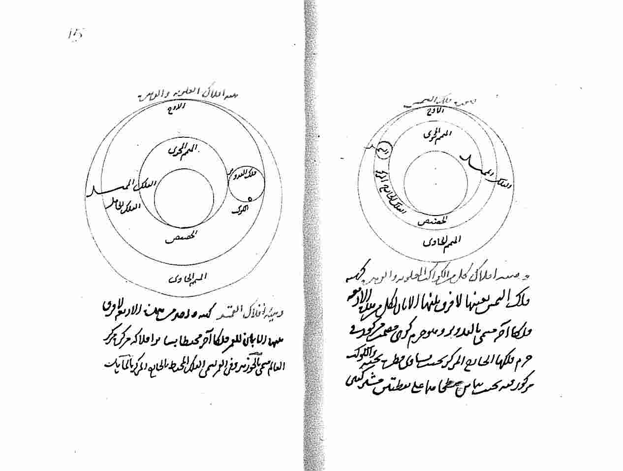 A page from Ali al-Qushji's al-Risala al-Fathiyya